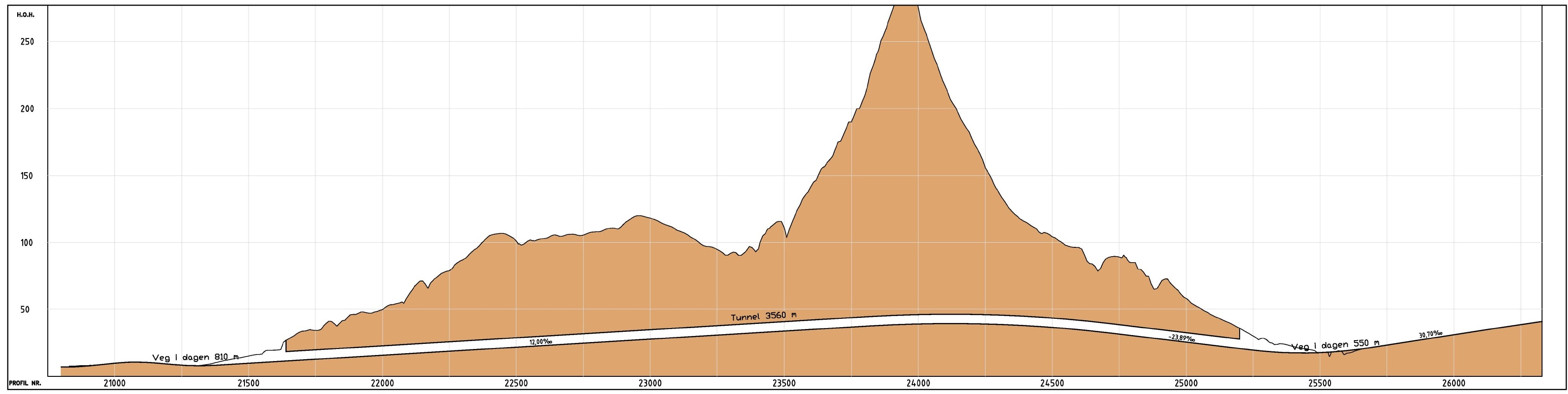 Profile of Vågstrand tunnel on road E136. Created by National road authority and approved for construction.